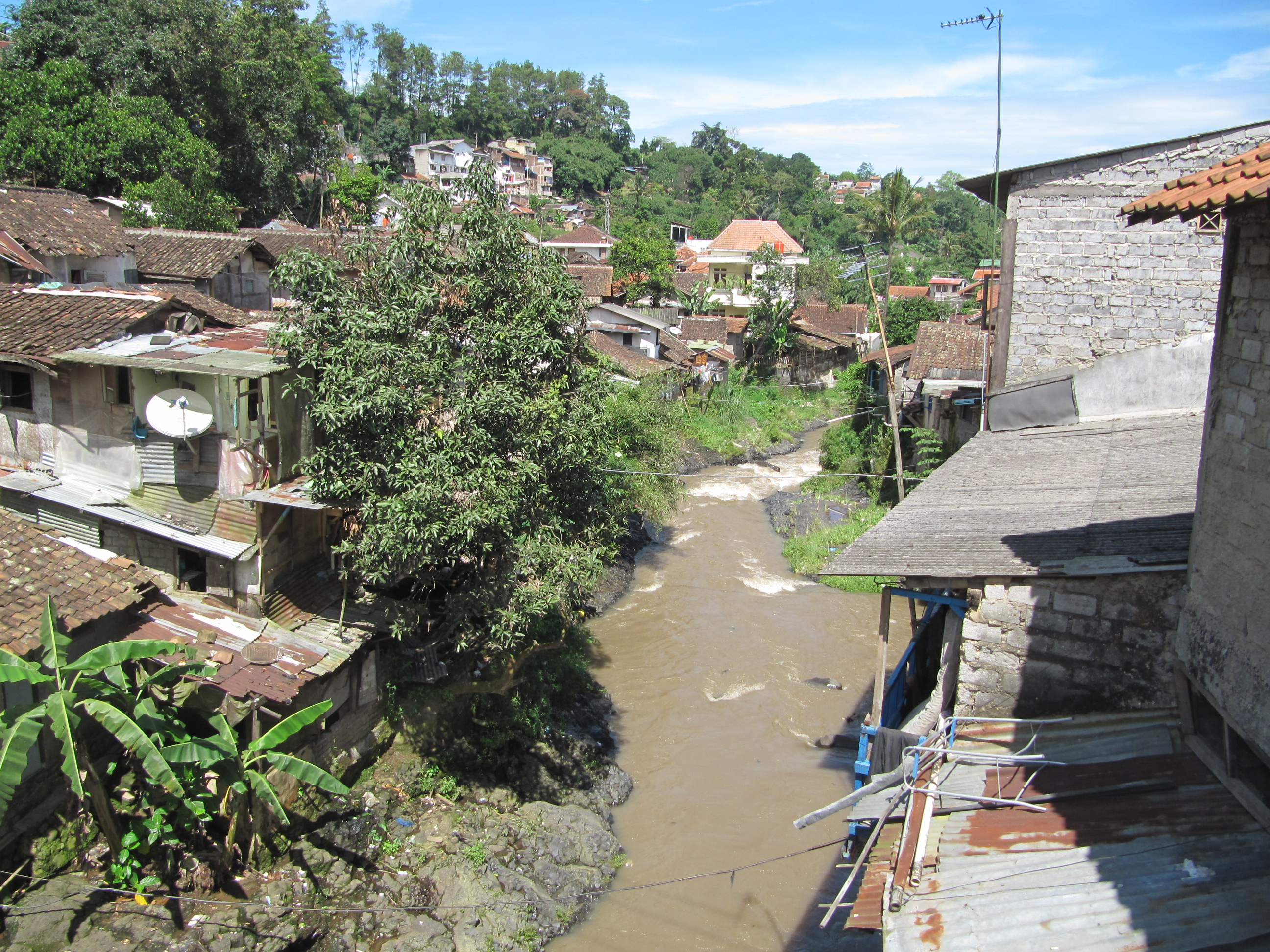 Cikapundung